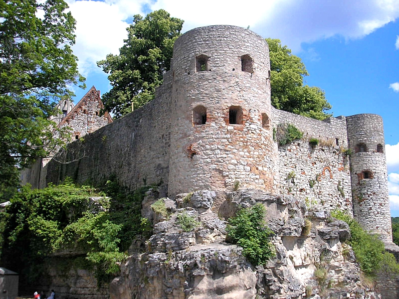 Pappenheim castle (Landkreis Weißenburg-Gunzenhausen, Middle Franconia, Germany). The bailey, seen from the north west.